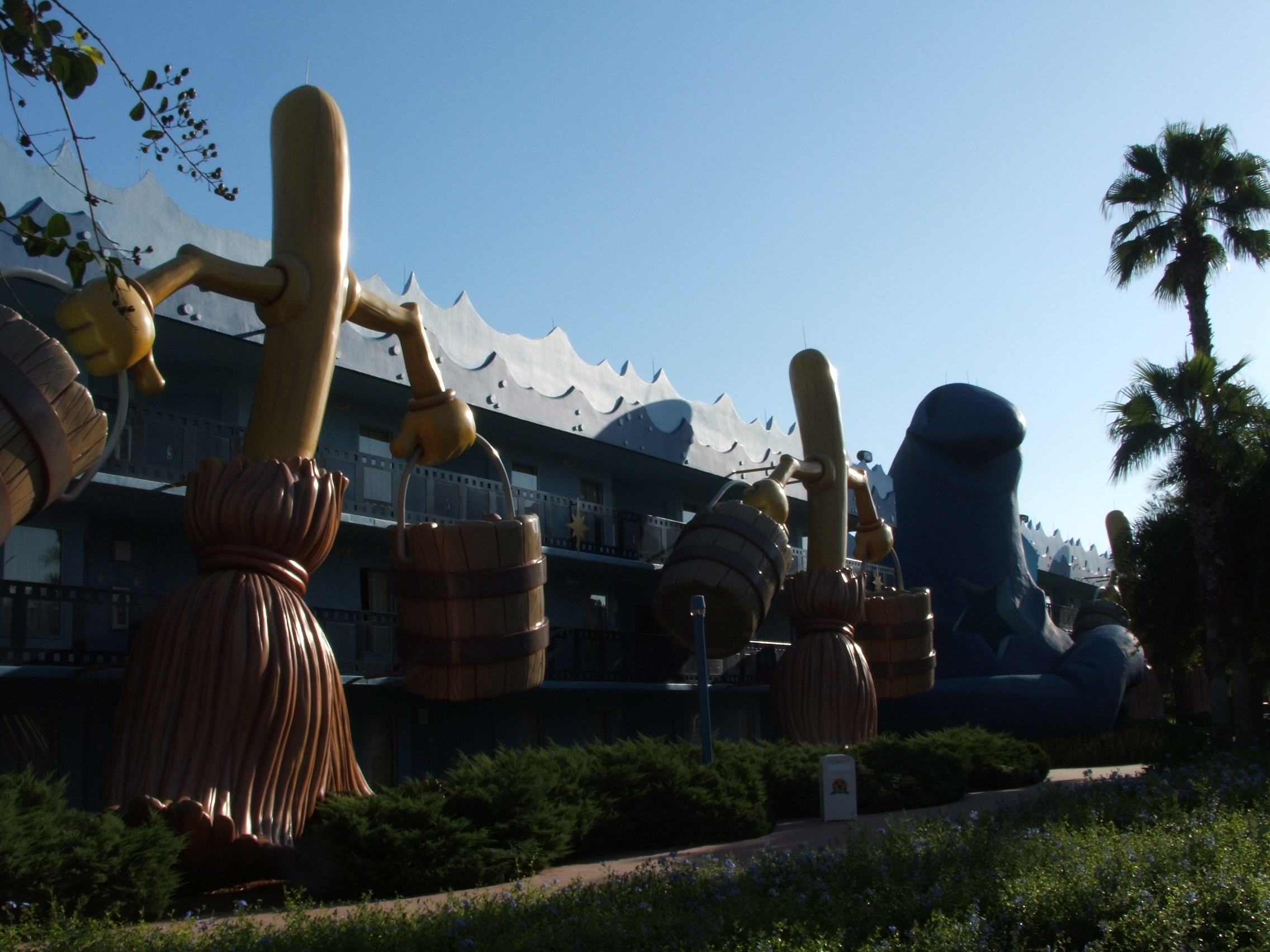 View of Disney's All-Star Movies Resort, featuring the brooms from "The Sorcerer's Apprentice", Fantasia